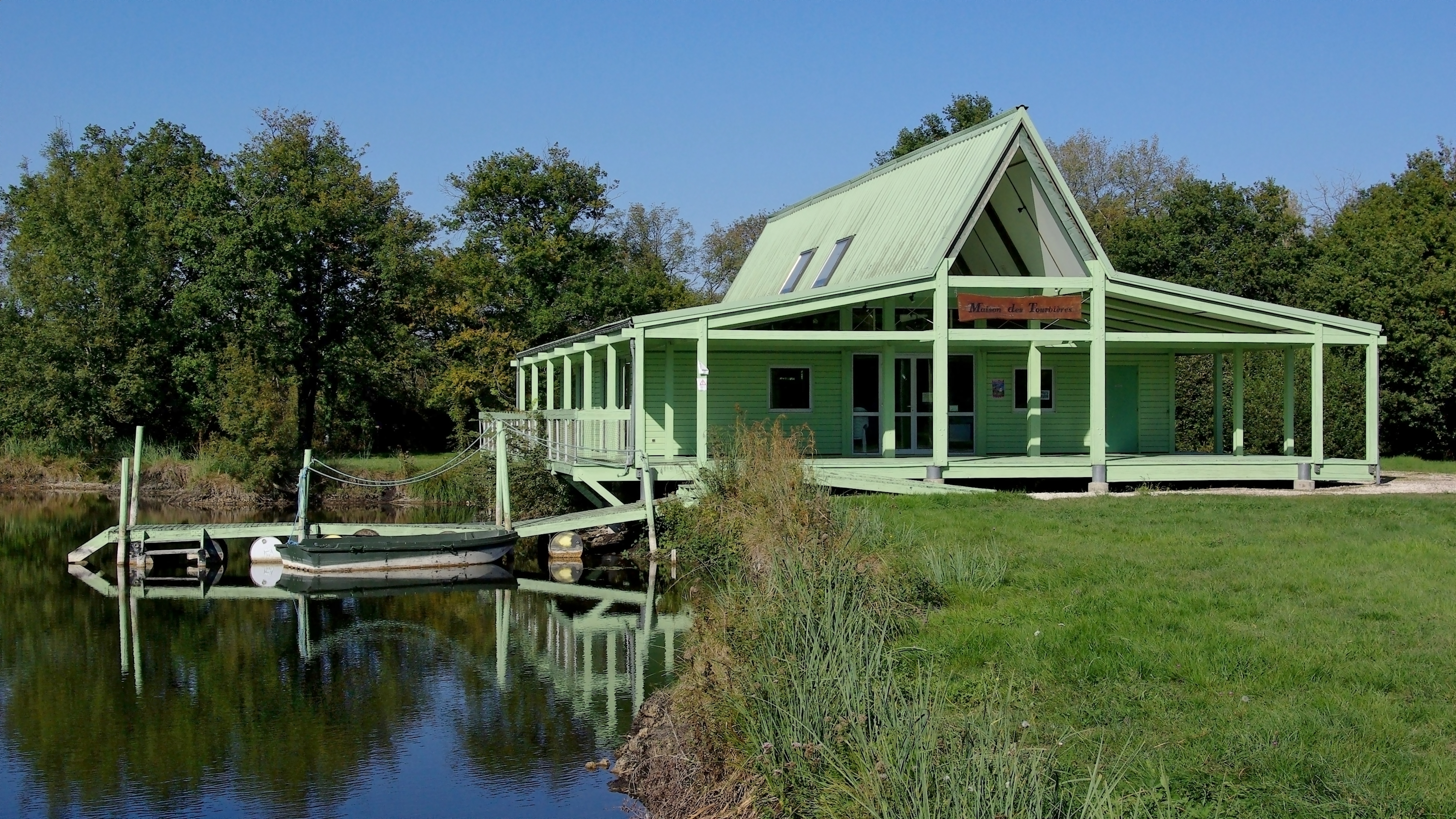 The peat-bogs house, ecological museum in the natural park of Vendoire, Dordogne, France. Architect : Alain de La Ville, Verteillac, Dordogne.